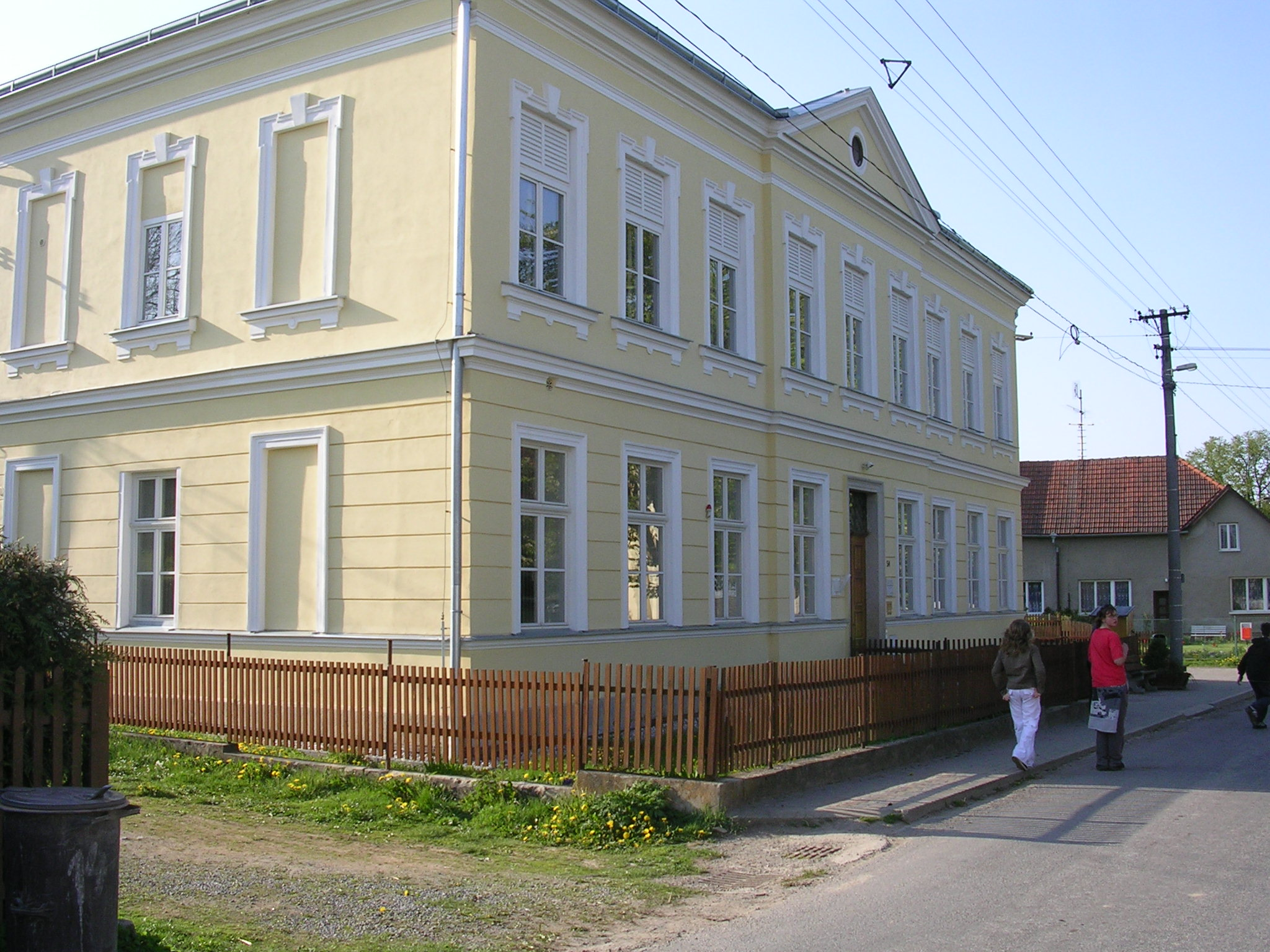 Častrov-Metánov, Vysočina Region, the Czech Republic.